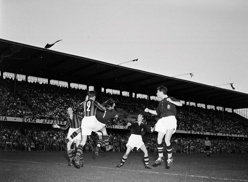 FOTOGRAFIRåsundastadion. Fotbollsmatch mellan AIK och Djurgården. 1950-1950FOTOGRAF: Lantz, Gunnar (Pressfotograf). Svenska DagbladetBILDNUMMER: SvD 25915Stockholms stadsmuseum, Sweden